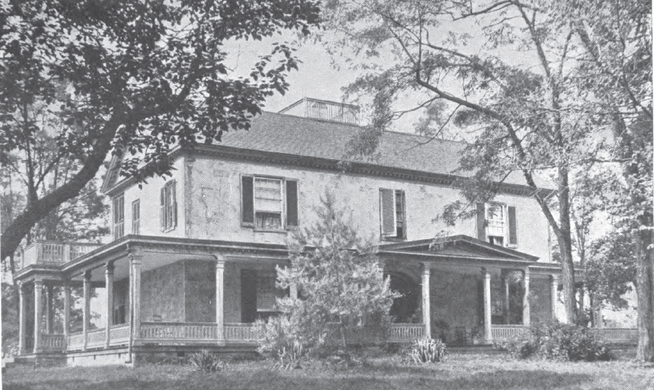 Fruit Hill was the home in Ross County, Ohio of Ohio Governors Duncan McArthur and William Allen, his son-in-law, seen in photo published 1896.